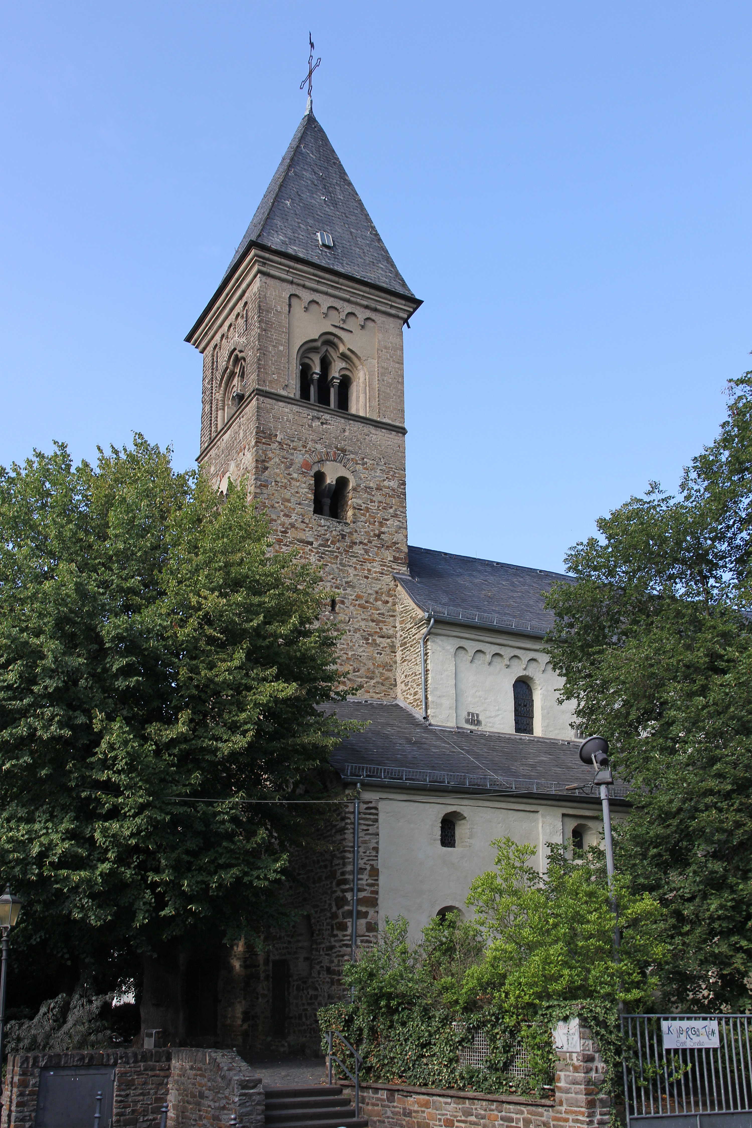 Old-St. Servatius church in Koblenz